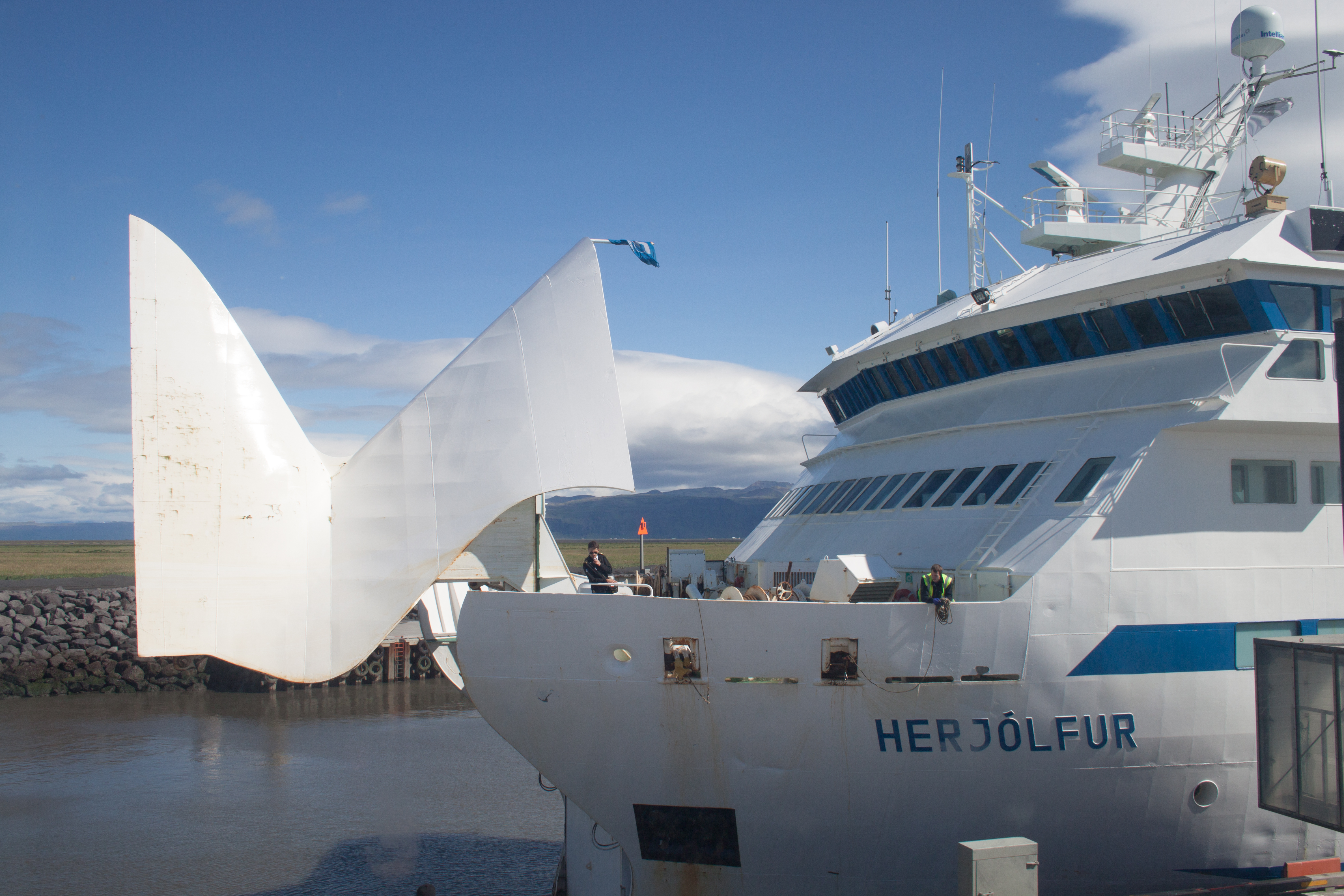 Landeyjahöfn